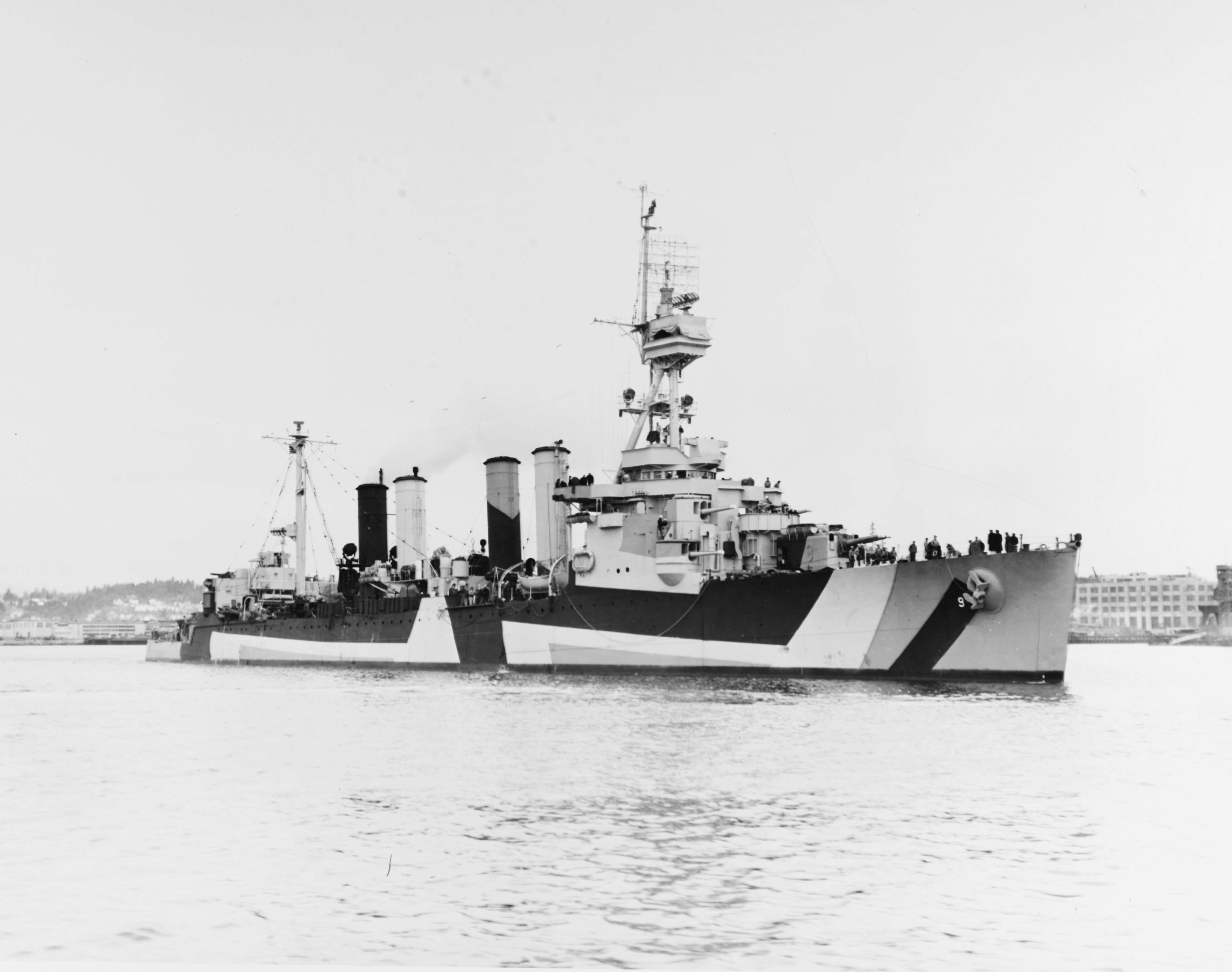 The U.S. Navy light cruiser USS Richmond (CL-9) off the Puget Sound Naval Shipyard, Bremerton, Washington (USA), 24 June 1944. Her camouflage is Measure 32, Design 3d.